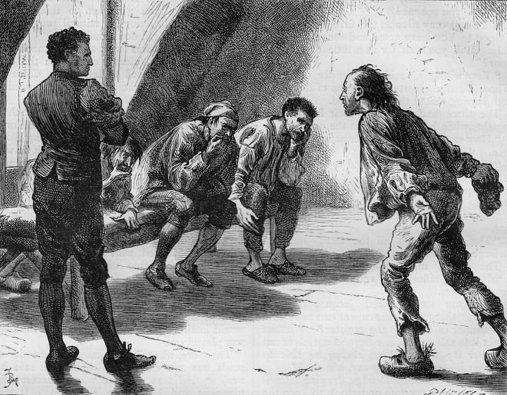 A Tale of Two Cities, The Road-Mender telling the story of the decaying corpse of the Marquis's murderer, by Fred Barnard.